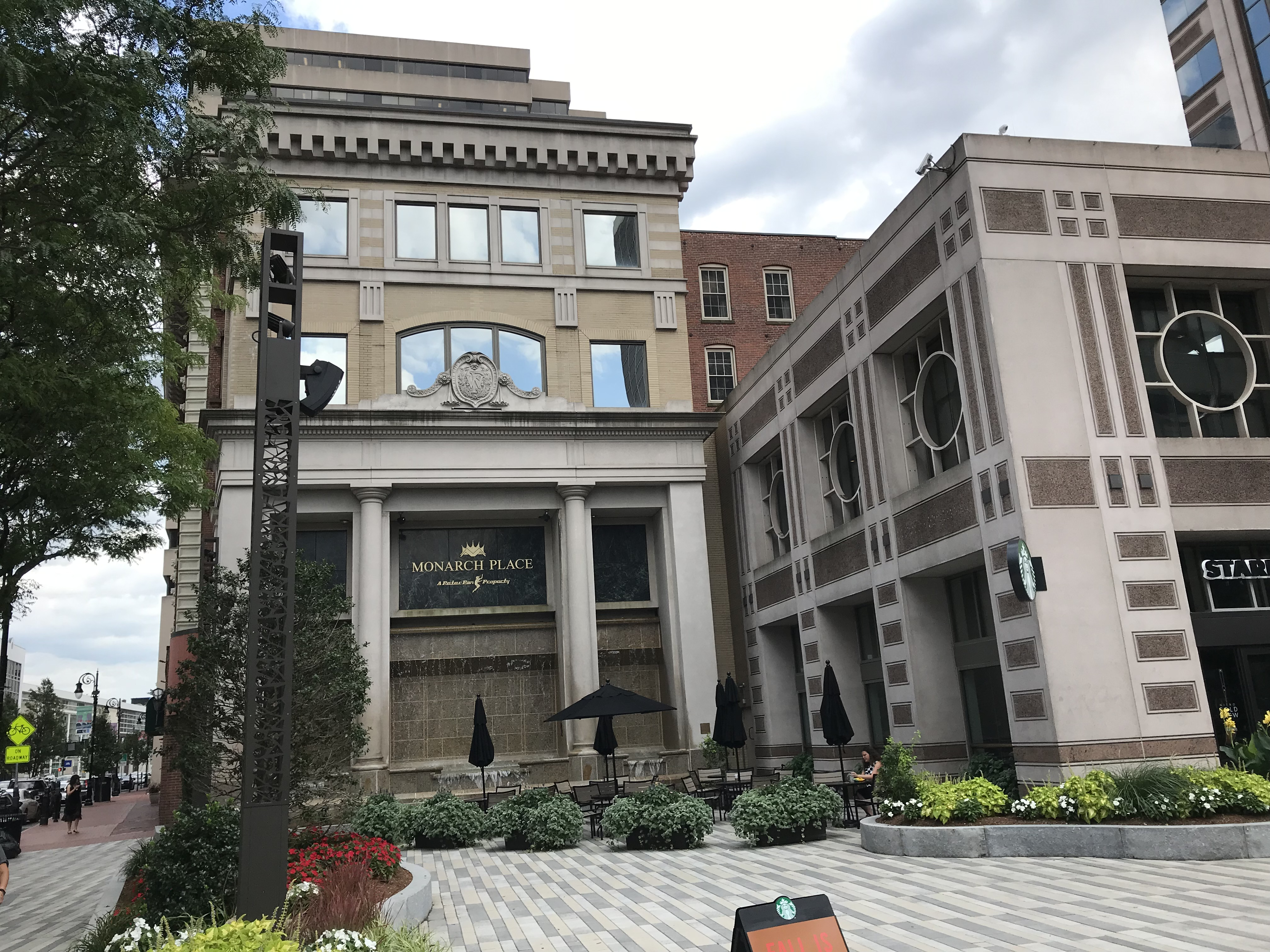 A façade designed to resemble the former Forbes & Wallace building on which Monarch Place was built.